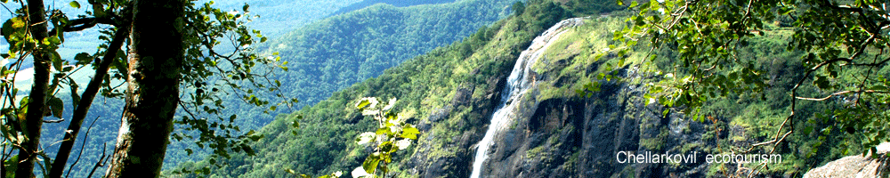 View from Chellarcovil Aruvikuzhy